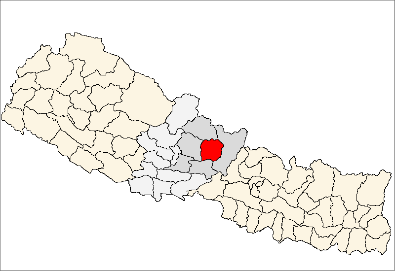 FrenchCarte de localisation dudistrict de Lamjung(wp-FR),au Népal (wp-FR).EnglishLocation map ofLamjung District(wp-EN),in Nepal (wp-EN).